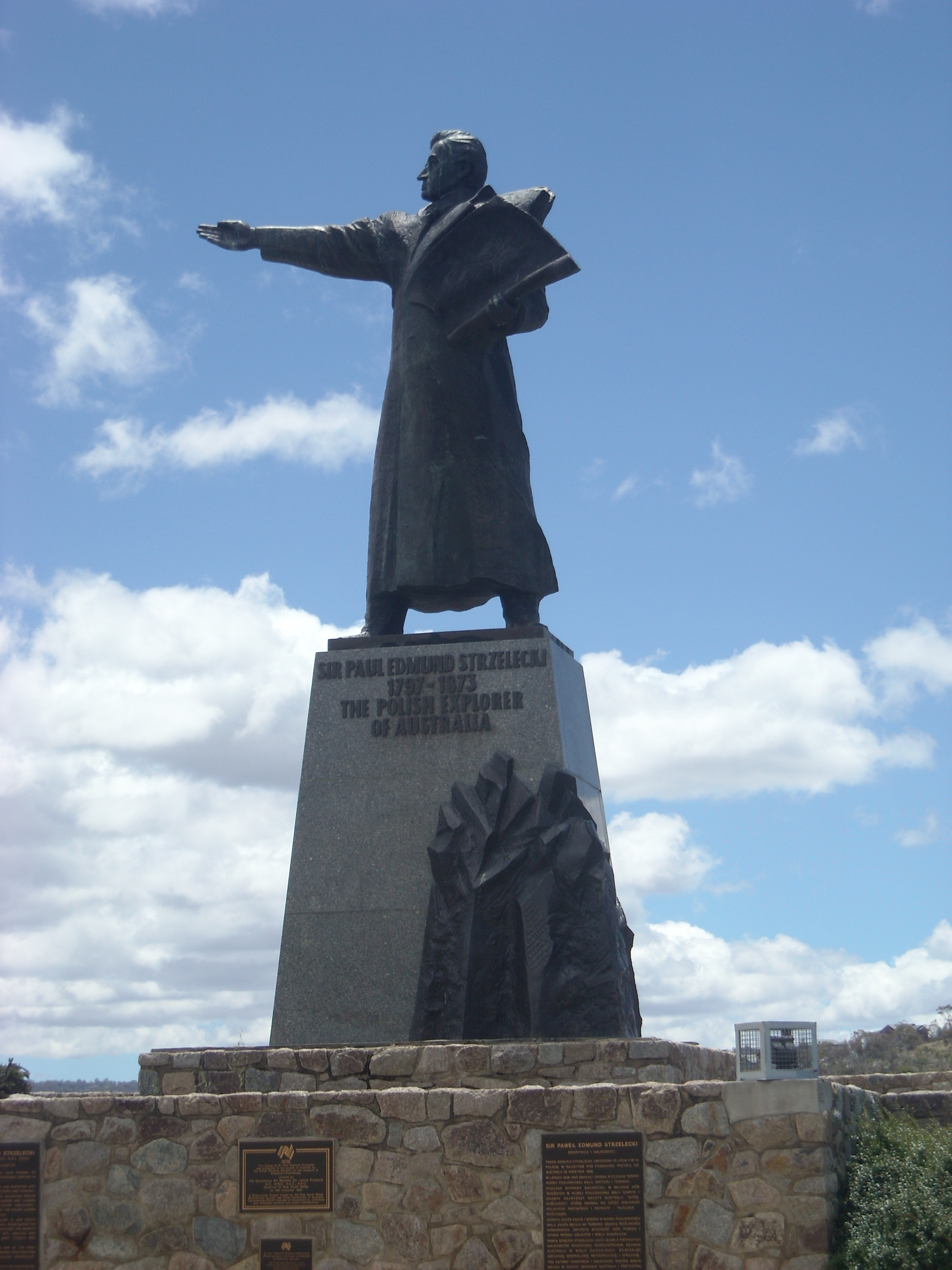 Statue of Sir Paweł Edmund Strzelecki in Jindabyne, New South Wales.